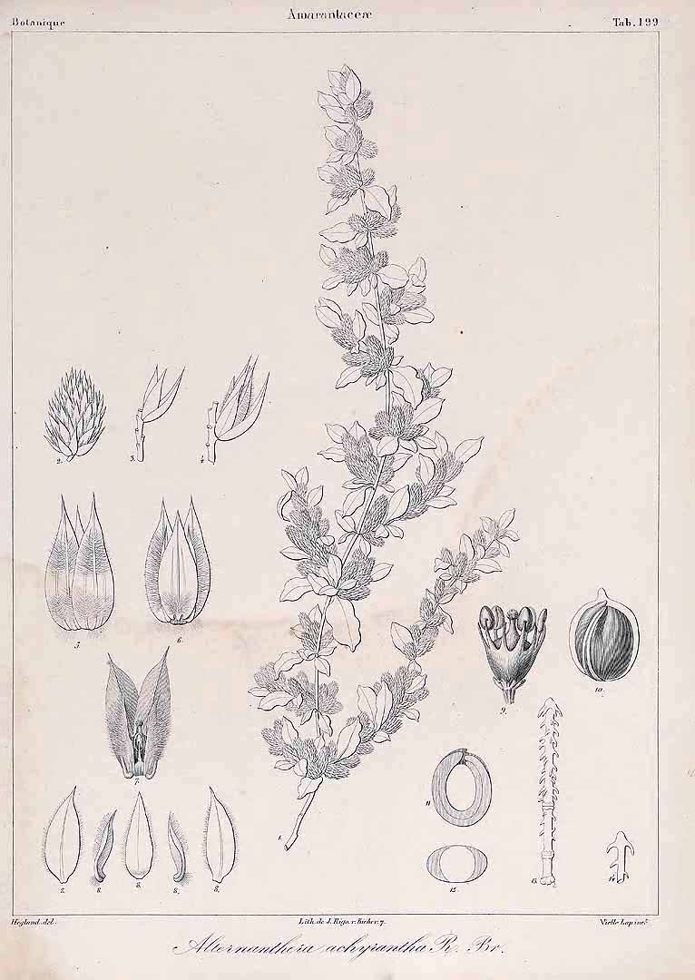 Plate showing Alternanthera pungens Webb, P.B., Berthelot, S., Histoire naturelle des Iles Canaries, vol. 2(3): p. 193, t. 199 (1836)